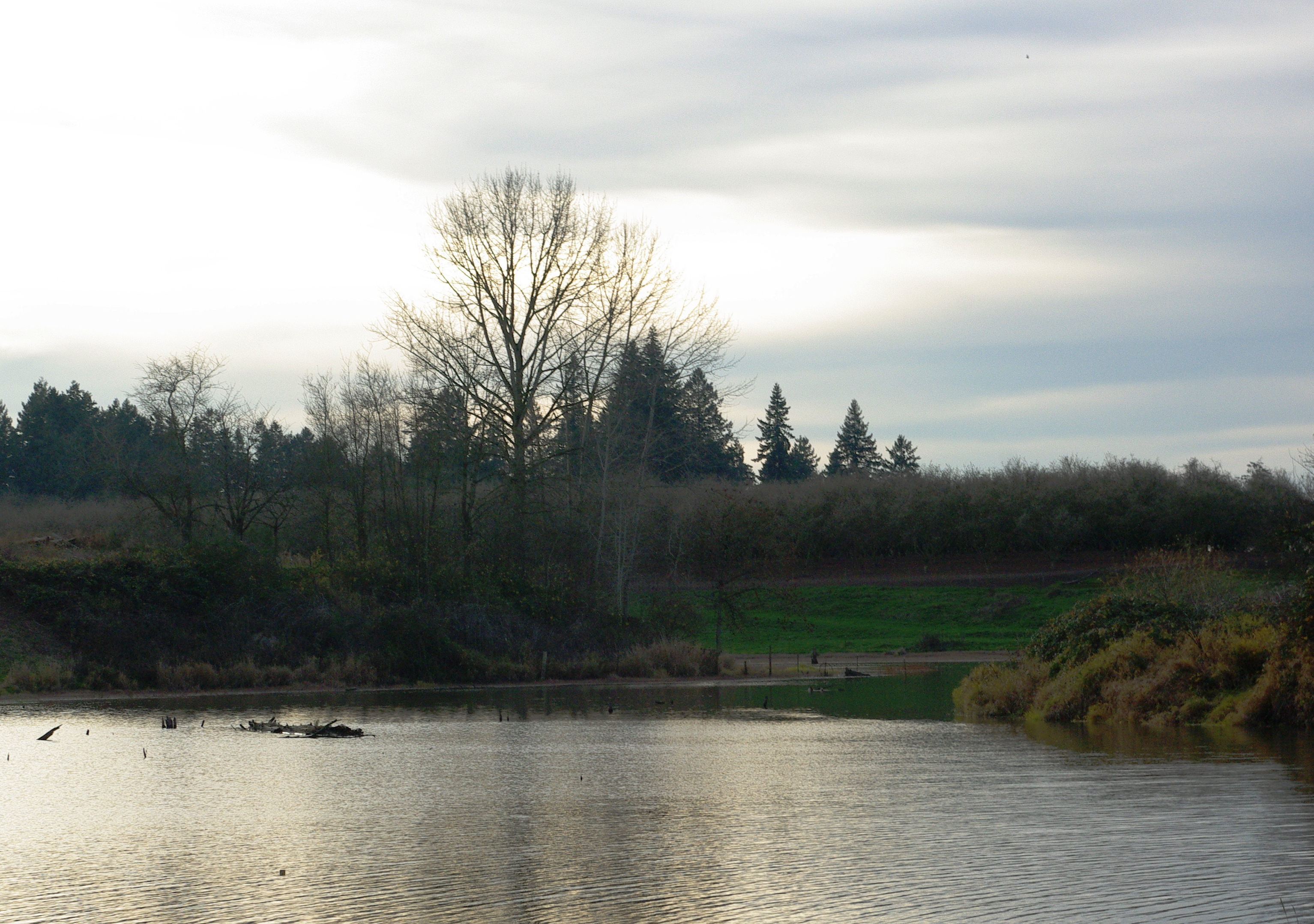 Mission Creek impounded at St. Paul, Oregon, USA.